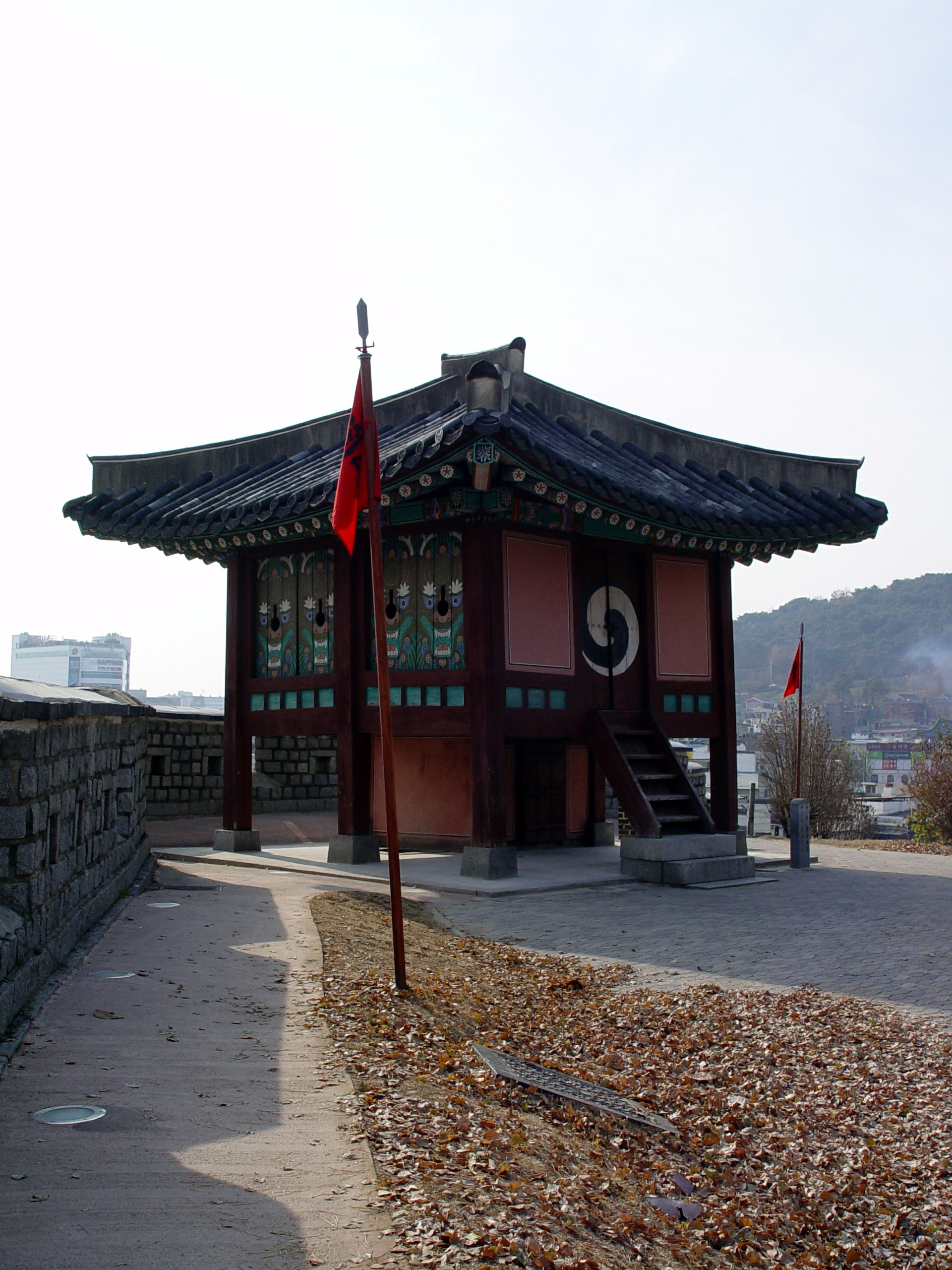 Dongnamgangnu, Hwaseong Fortress, Suwon, South Korea